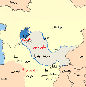 Maps of the history of Central Asia